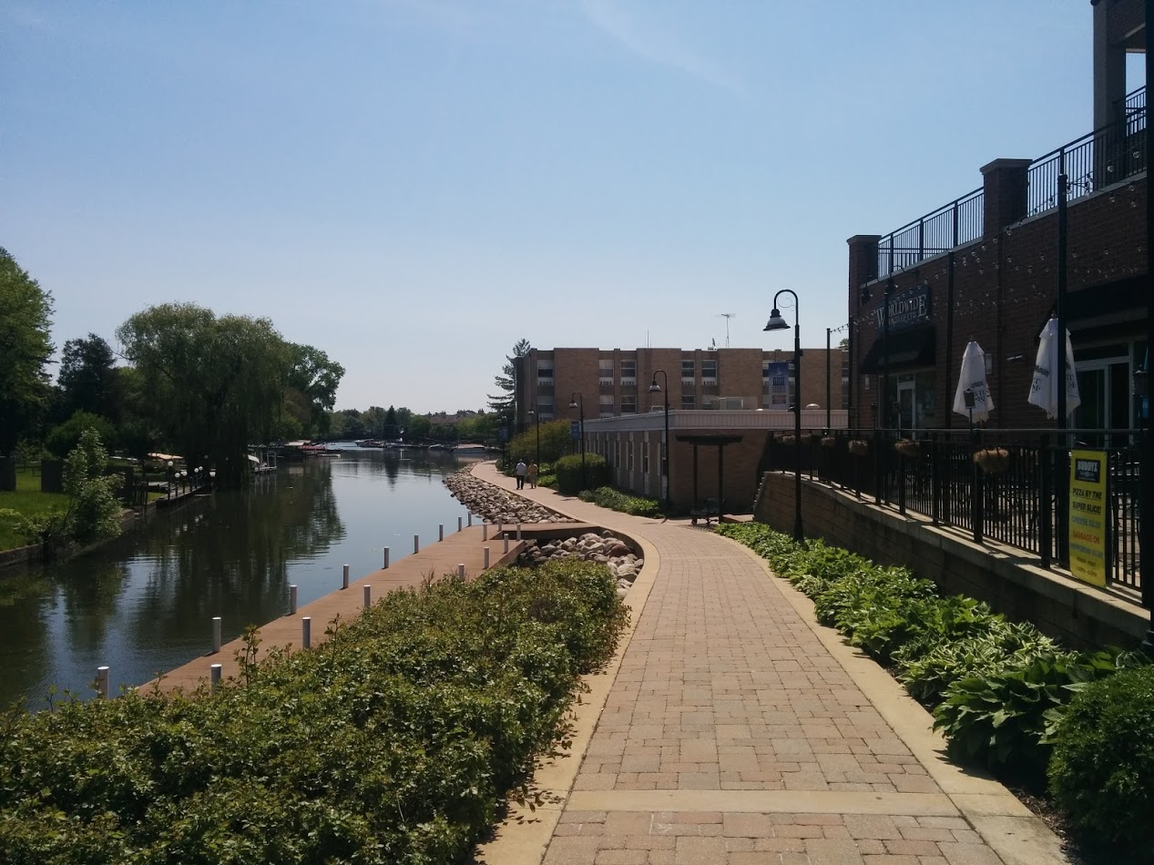 Picture of the McHenry Riverwalk looking east from Green Street.